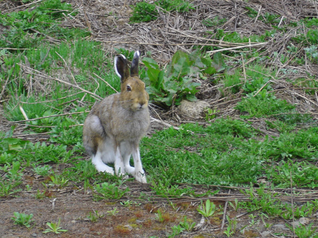 Mountain Hare(Lepus timidus ainu) at Biei, Hokkaido, Japan. It has summer pelage.